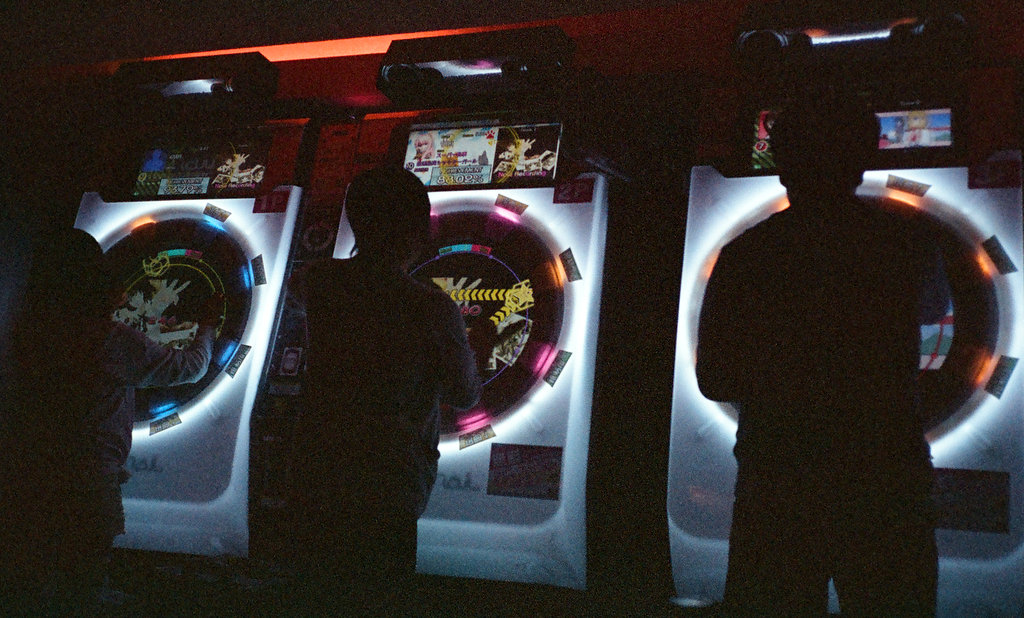 Three players playing a set and competing between them.